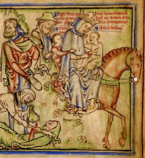 Queen Emma fled from England. (Cambridge University Library, Ee.3.59, fol. 4r) Fugit emma regina cum pueris suis in normanniam cum pueris suis ut ibidem a duce patre suo protegatur